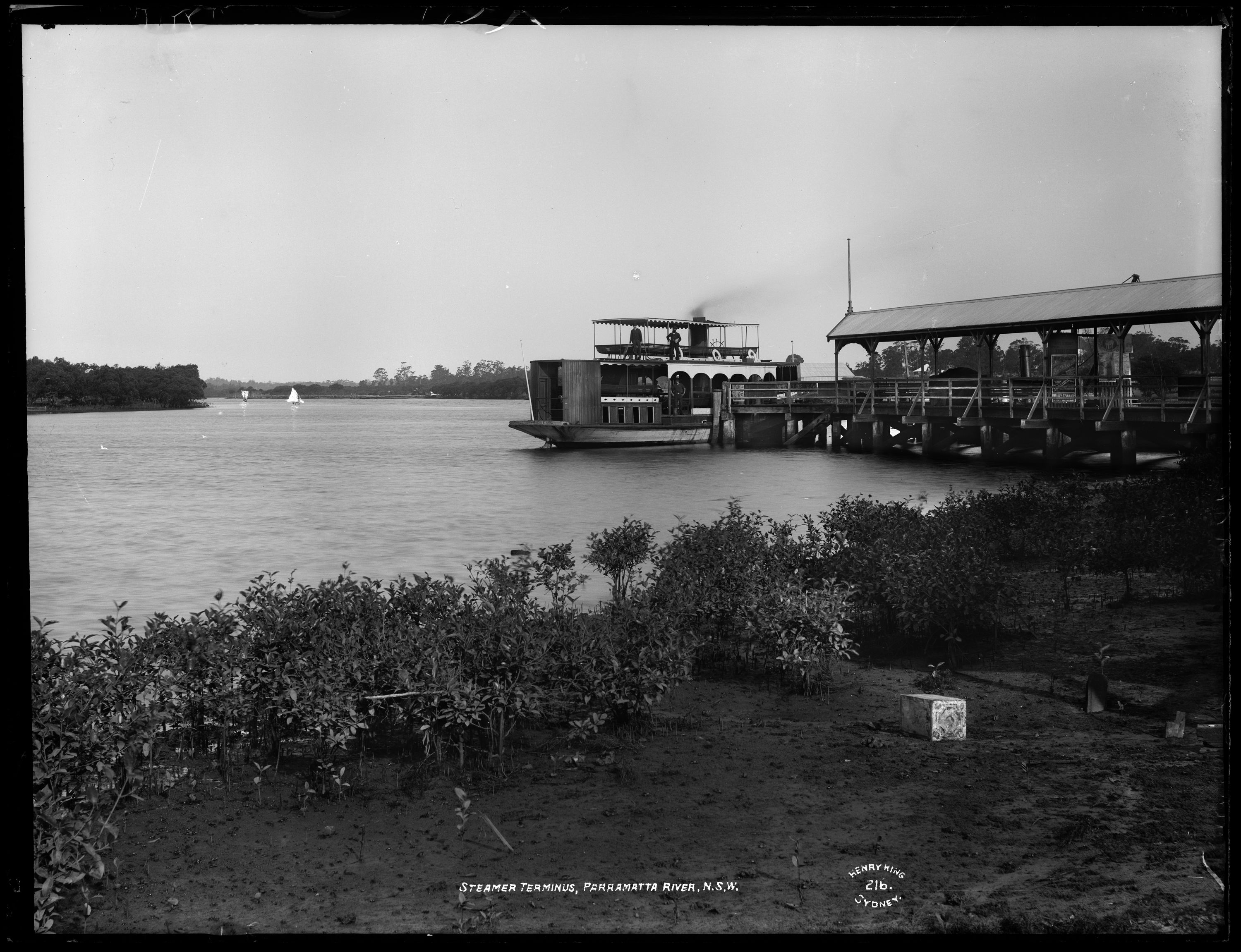 Sydney Ferry HALCYON c. 1890 at Redbank,Parramatta River,before reconstruction. File 084/084438 DESCRIPTION HALCYON was one of several river ferries that had passengers on three decks. DATE c.1890. FORMAT Digital image only. Many of the images in this collection are available as hi-res jpegs. Please contact the City of Sydney Archives on a case by case basis. RECORDSERIES Sydney Reference Collection CITATION Graeme Andrews 'Working Harbour' Collection: 84438 PROVENANCE City of Sydney Archives NOTES S105211